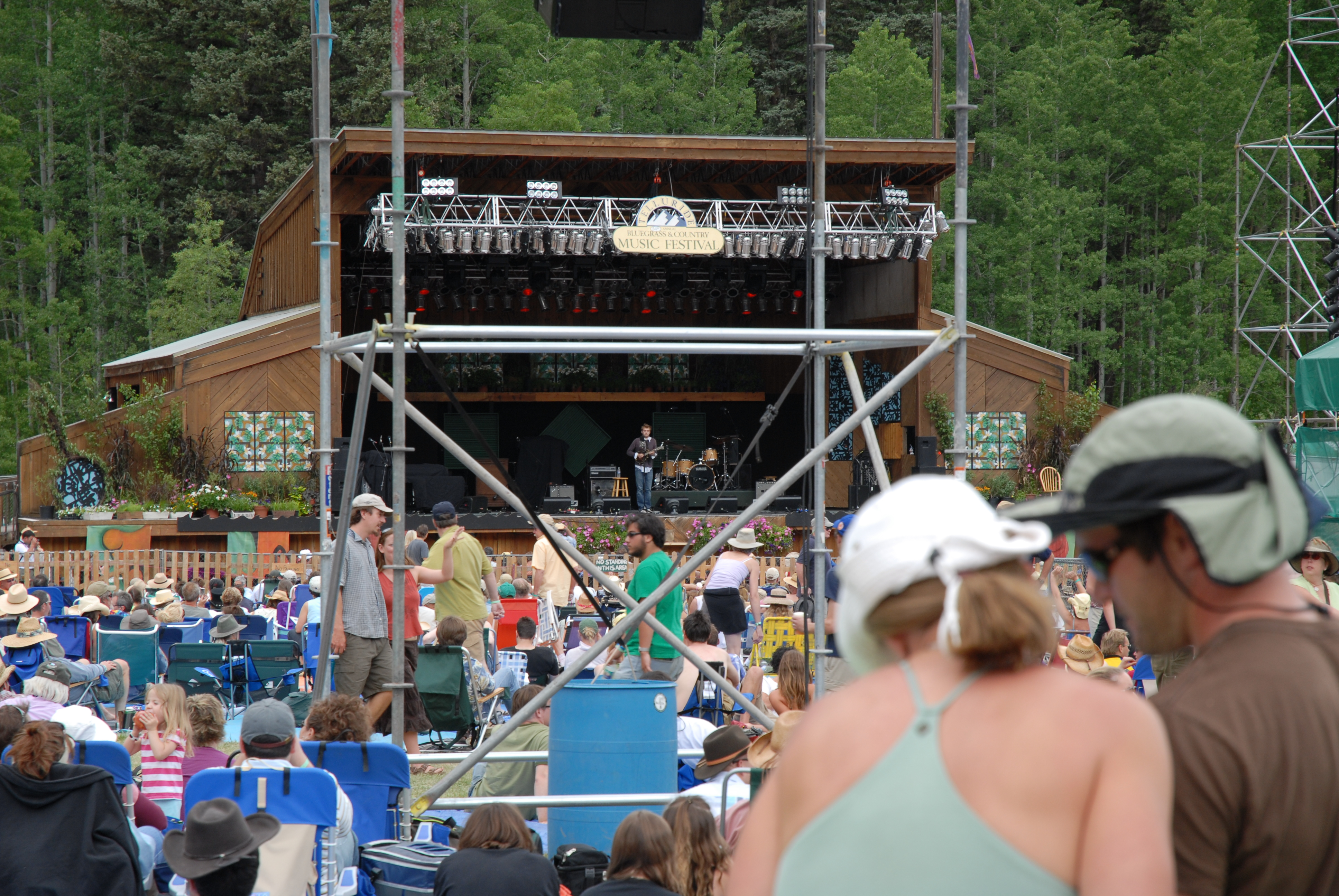 View over the audience and towards the stage of the 2007 Telluride Bluegrass Festival